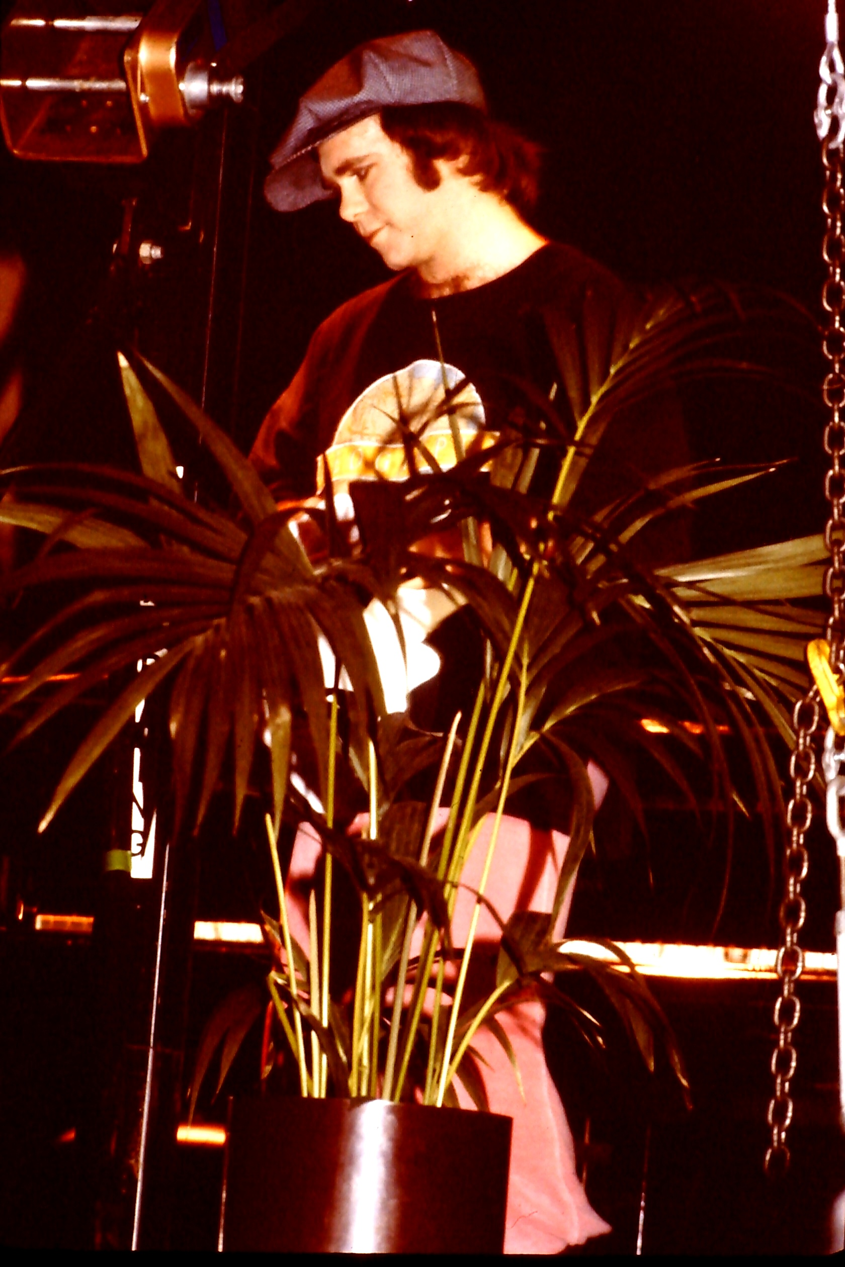 1979 - Elton John at The Rosengarten, Mannheim. Elton without glasses.